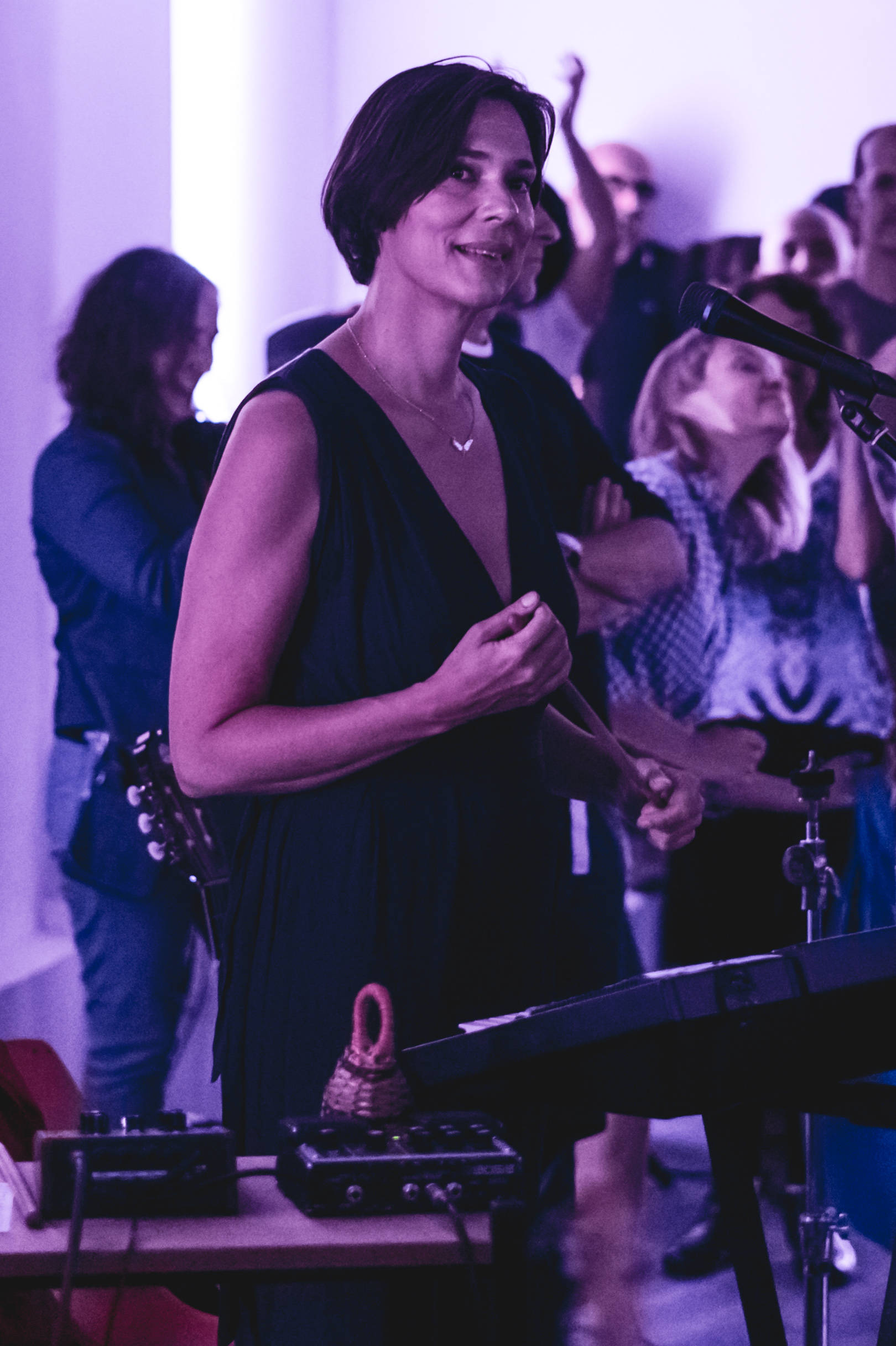 Performance of Laetitia Sadier and Basch in Studio Voltaire in July 2017.